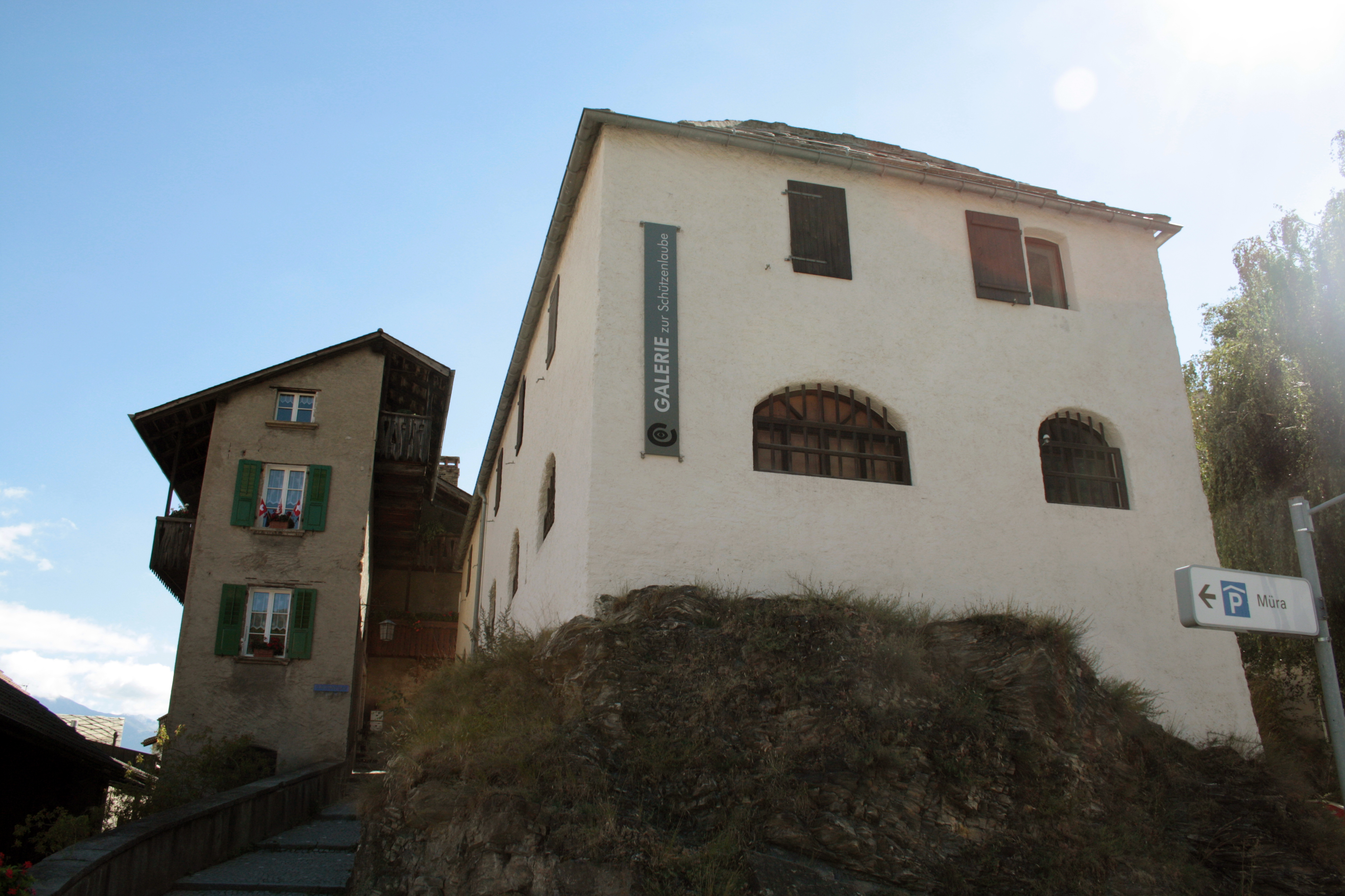 Schützenlaube Visp